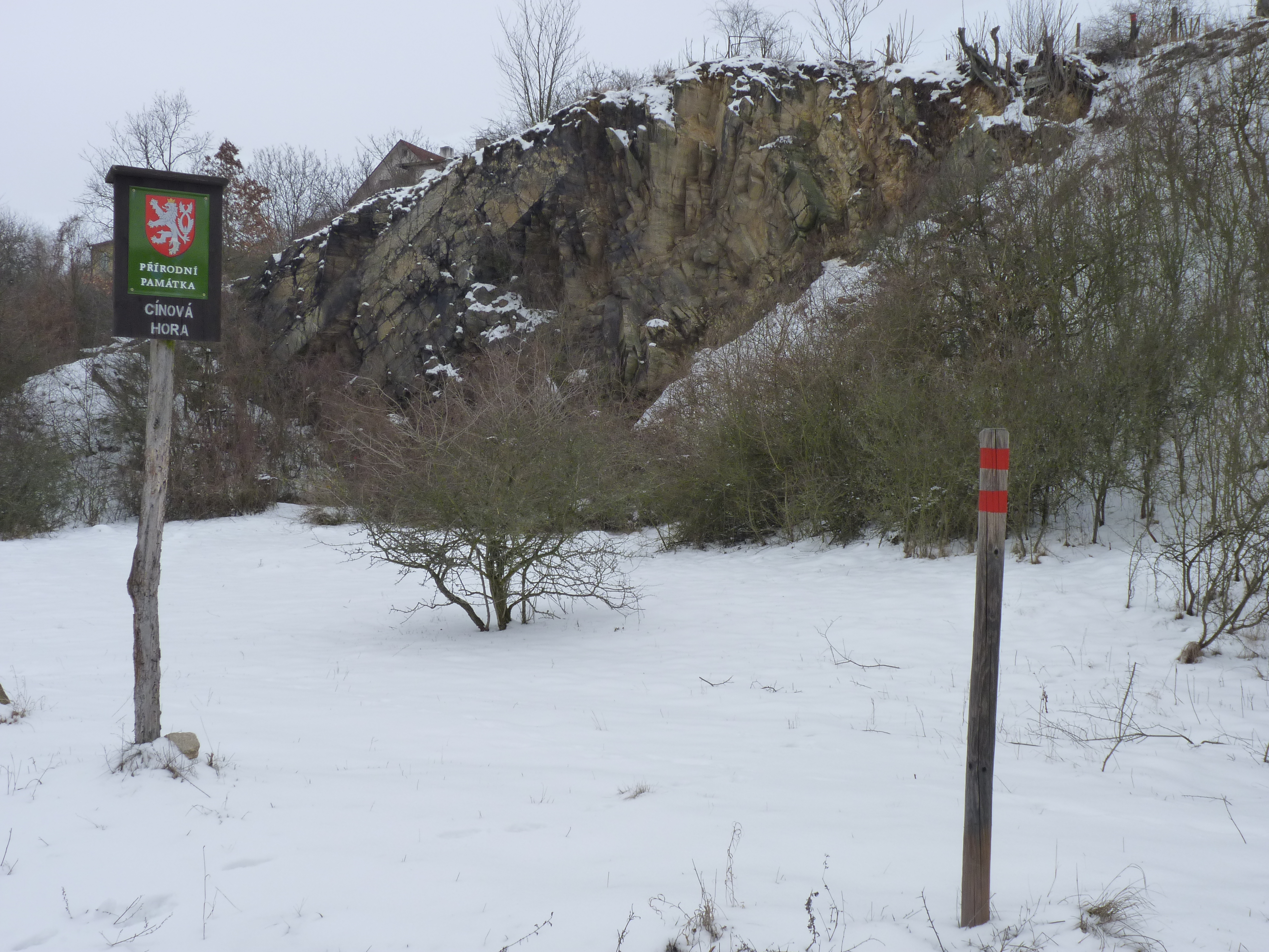 Cínová hora (natural monument), Znojmo District, South Moravian Region, Czech Republic